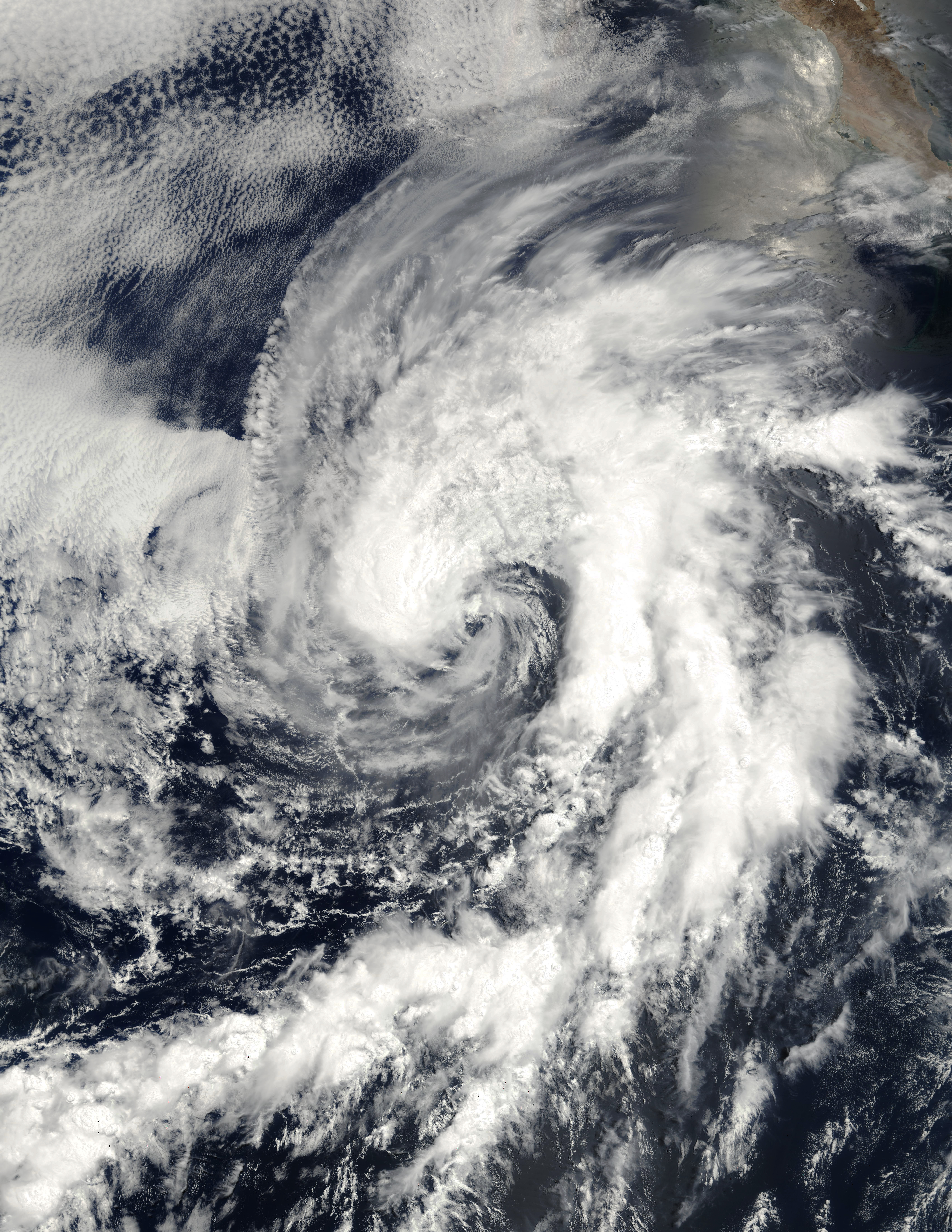 Now downgraded to a tropical depression, Tropical Storm Cristina can be seen at full strength in this true-color image taken on July 14, 2002, by the Moderate Resolution Imaging Spectroradiometer (MODIS), flying aboard NASA's Terra spacecraft. The land in the upper right-hand corner is Baja California. The typhoon, which formed to the south a few days ago, moved northward and headed toward Baja California before turning west and dissipating in the eastern Pacific. When this image was taken, the tropical storm bore sustained winds of over 63 kilometers (39 miles) per hour. Currently, sustained winds are at 46 kilometers (28 miles) per hour.